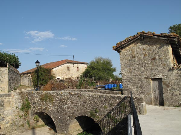 Bridge of Narvaja (Spain)